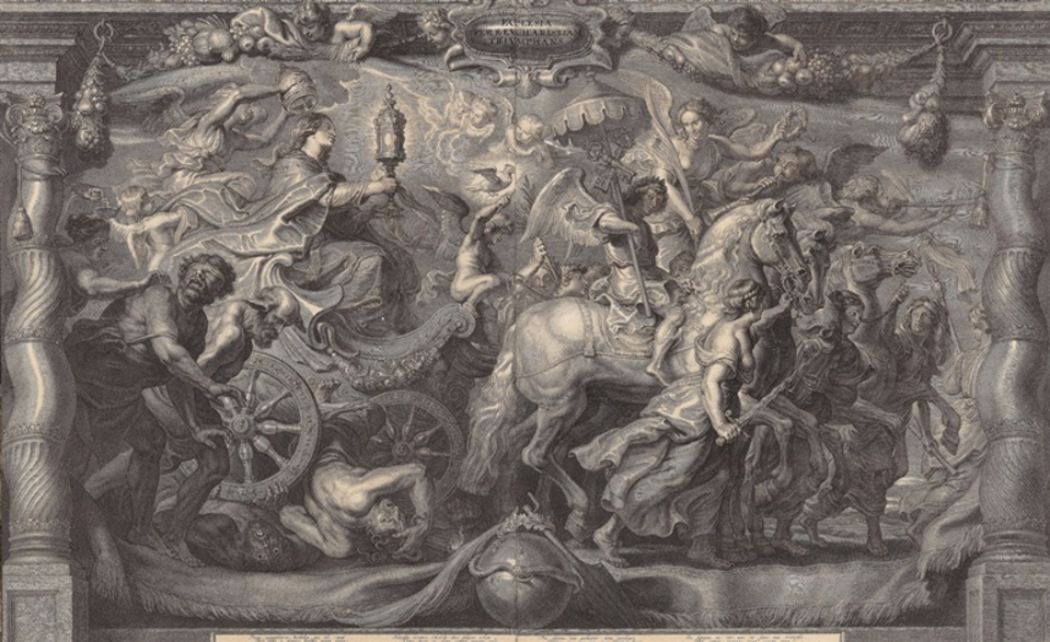 The triumphal procession of Ecclesia, engraving by Nicolaes Lauwers, ca. 1647–1652